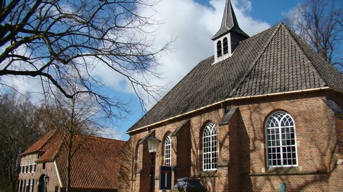 Church of Bronkhorst